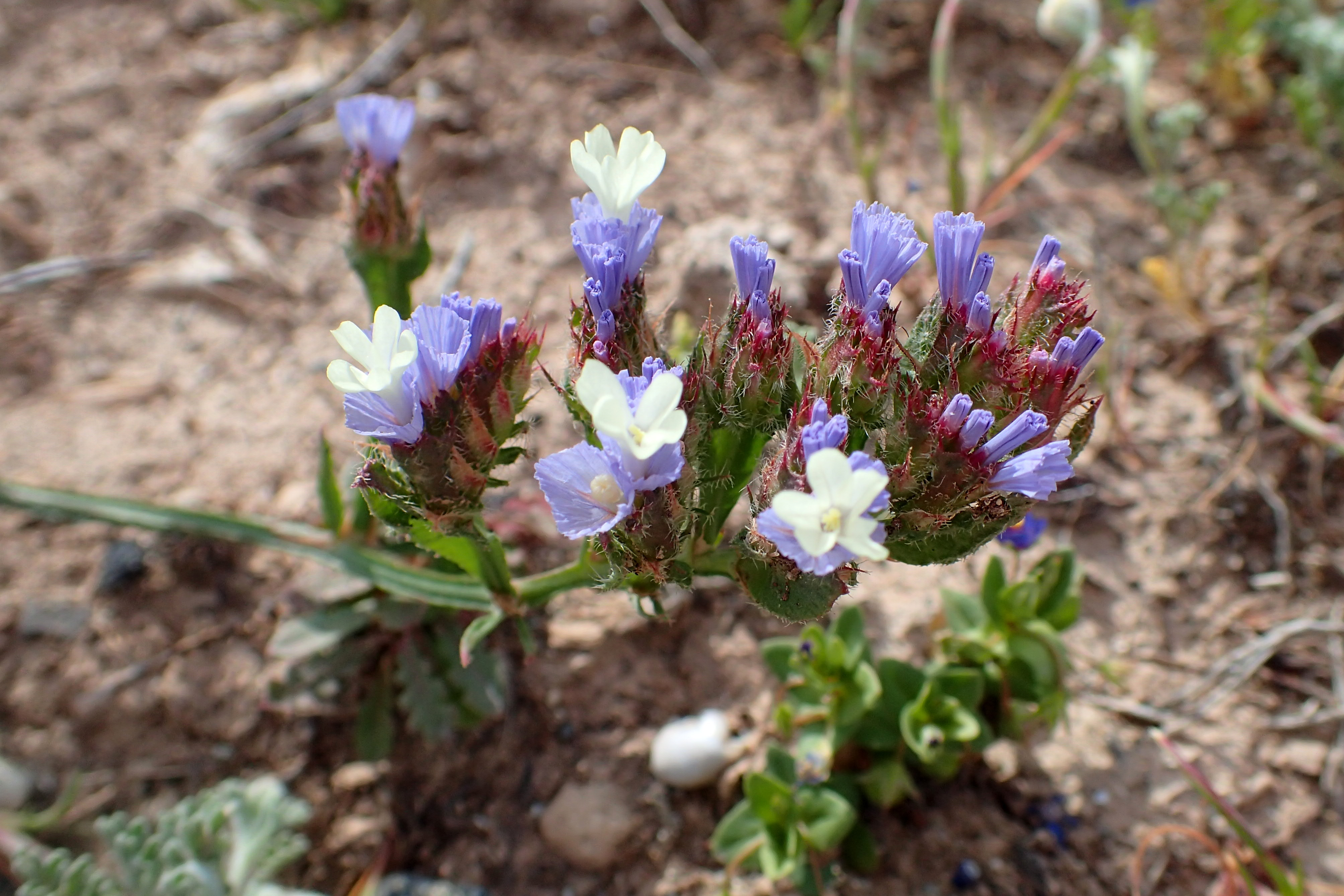 Limonium sinuatum at mouth of Cha-Potami, Cyprus